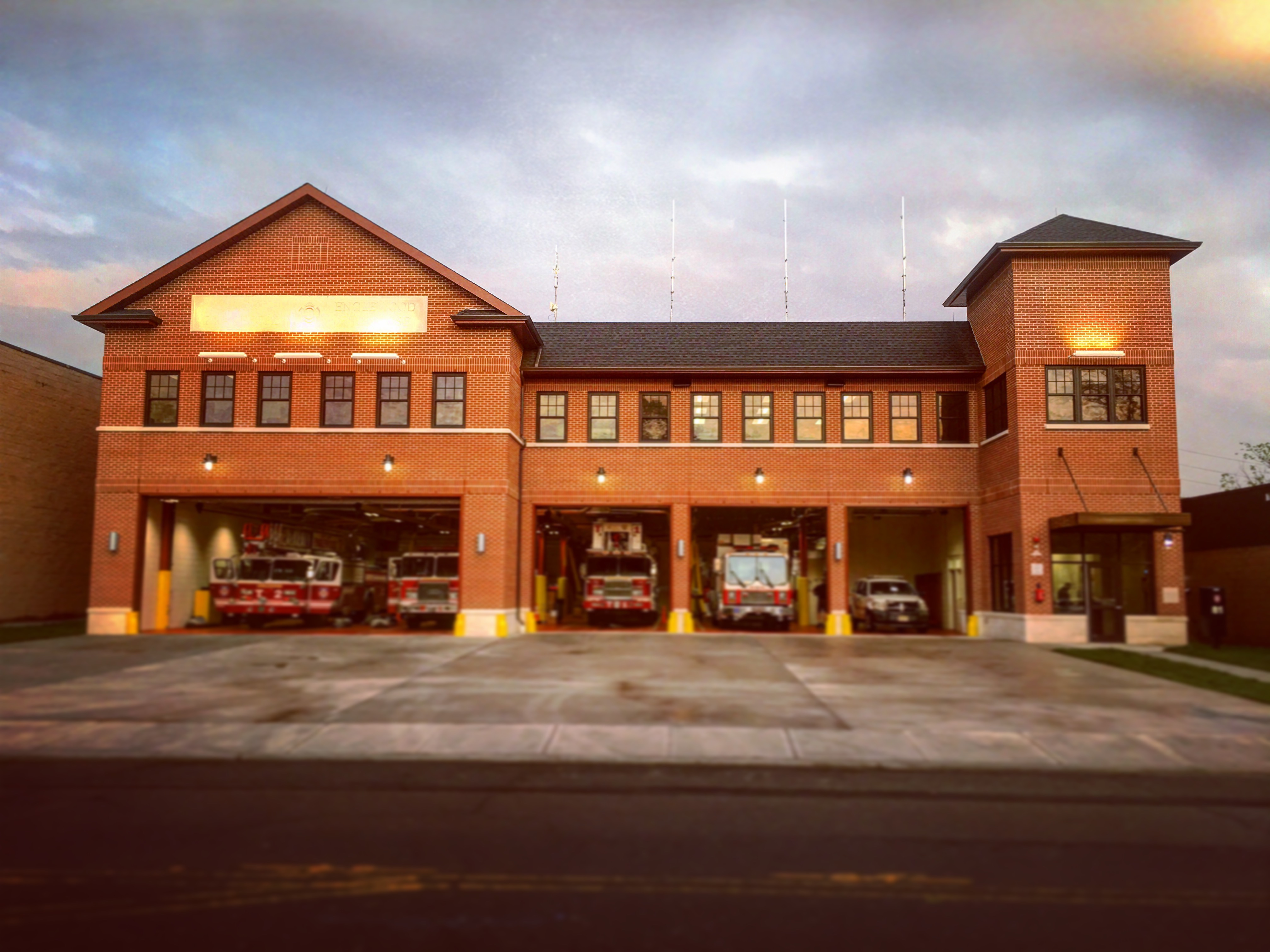 Image of Englewood Fire Headquarters on So Van Brunt St built in 2015